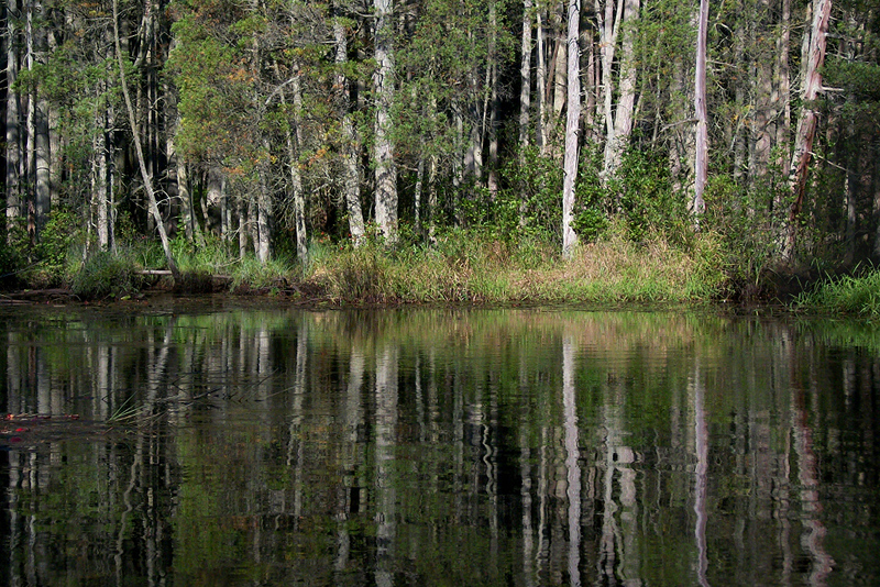 Oswego River in the Penn State Forest, part of the New Jersey Pinelands National Reserve, New Jersey, United States